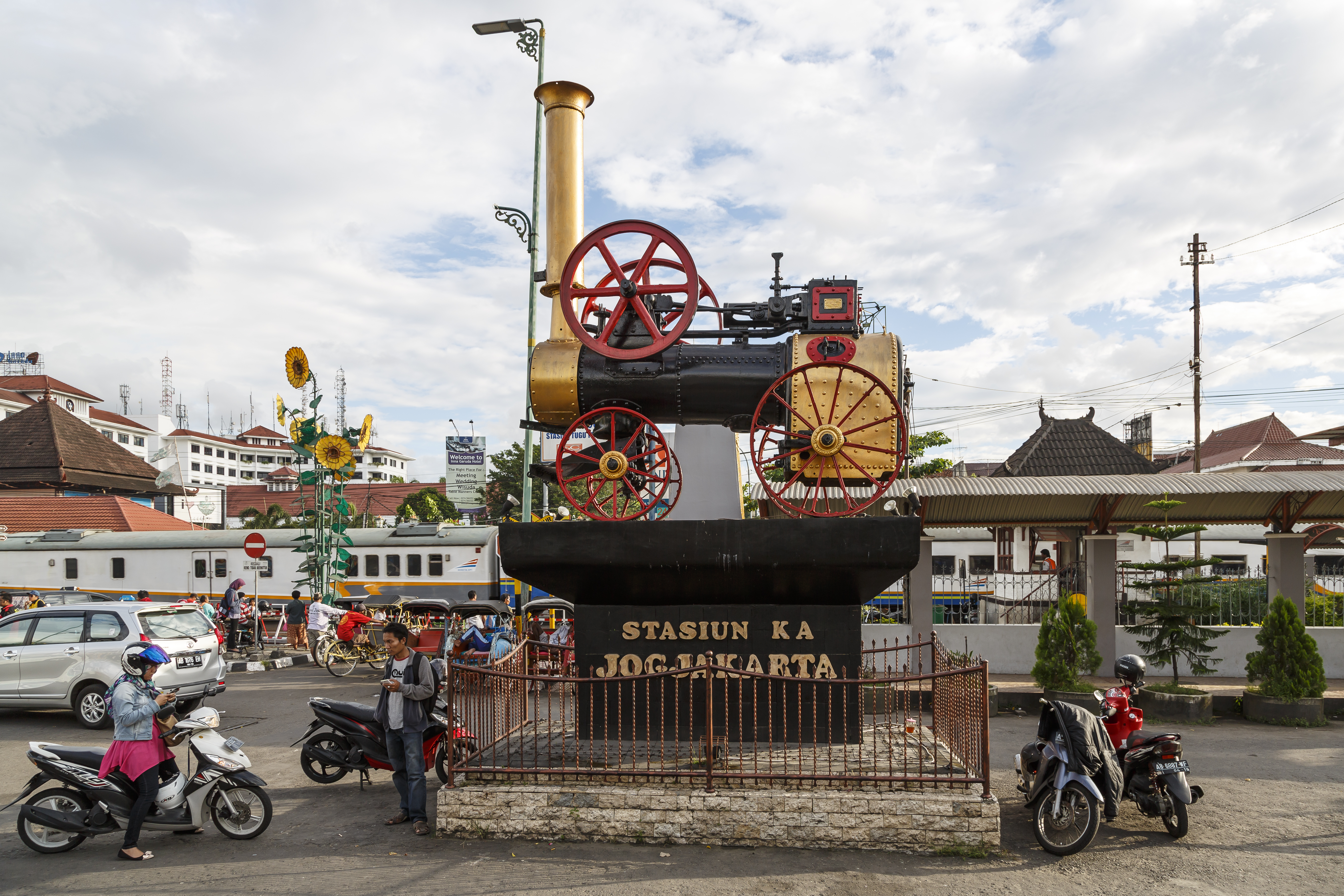 Yogyakarta, Indonesia: Steam engine monument at the entrance of the Yogyakarta Train Station (Stasiun Ka Jogjakarta) in Indonesia. It is a Marshall single cylinder portable steam engine made in Gainsborough, England. Although it's termed a portable steam engine, it has no method of propelling itself so it would be pulled by a team of horses or oxen. They were used for running threshing machines, saw benches, mills & in the case of Asia were used within the sugar industry for running equipment.